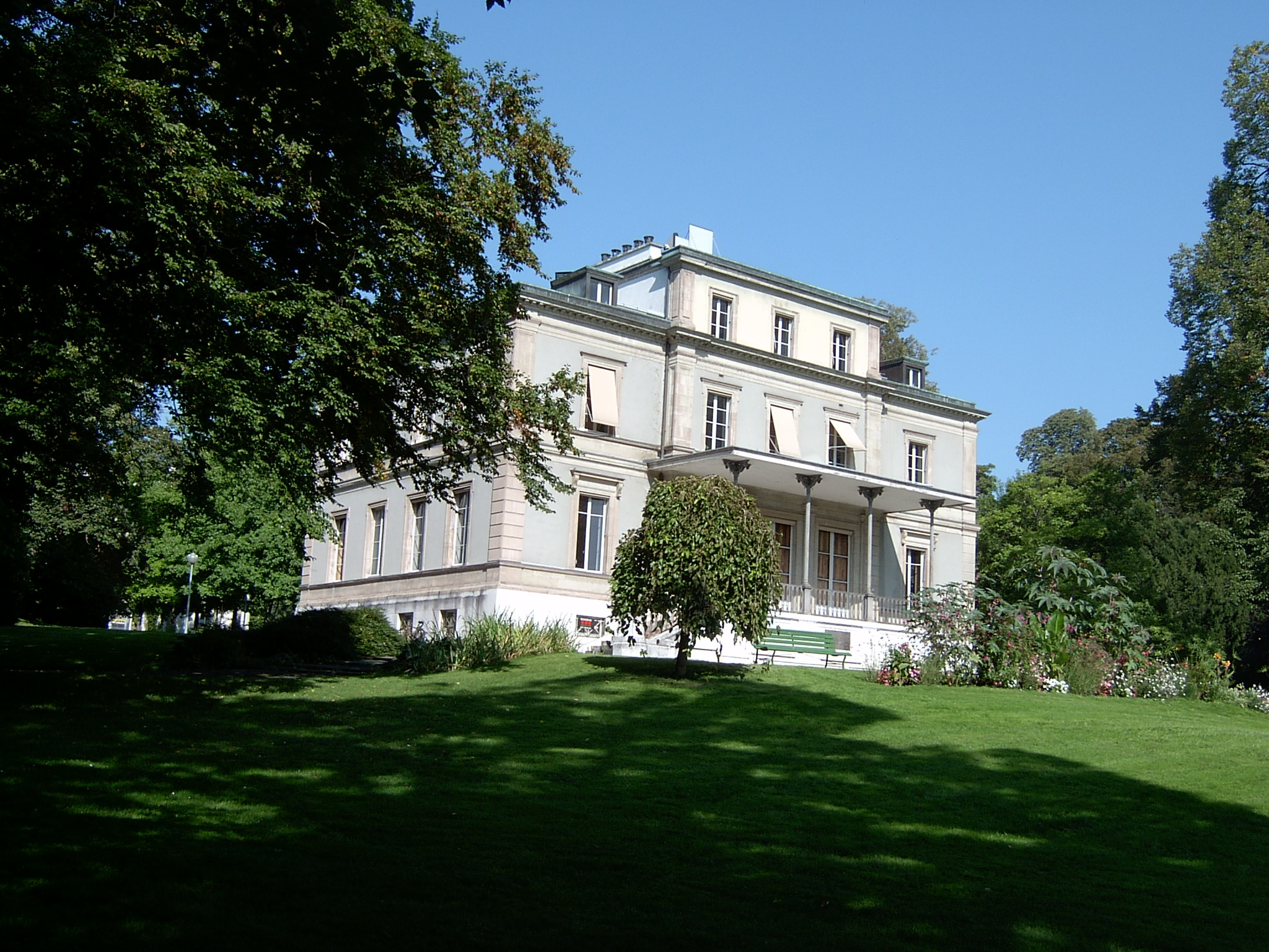 The Villa Moynier (Geneva).